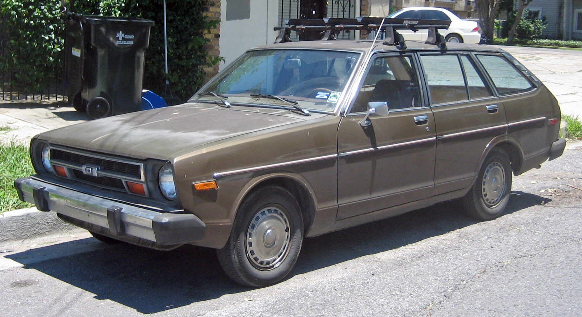 1979 Datsun 210 wagon (Sunny B310 series wagon for the US market) in the Carrollton neighborhood of New Orleans.